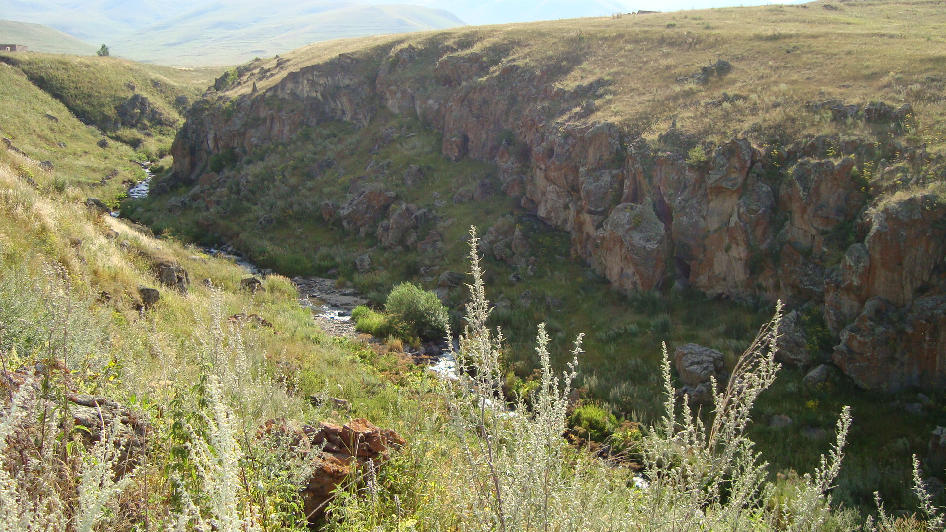 A canyon of the river in Zar / Tsar. Shahumian district, Republic of Mountainous Karabakh / Kalbajar Rayon, Azerbaijan.